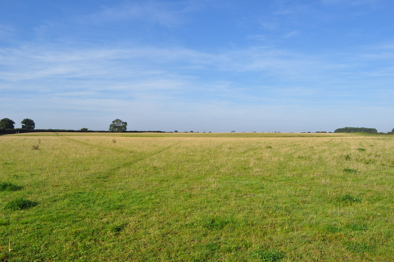 Bloodgate Hill Iron Age Fort, near to South Creake, Norfolk, Great Britain.